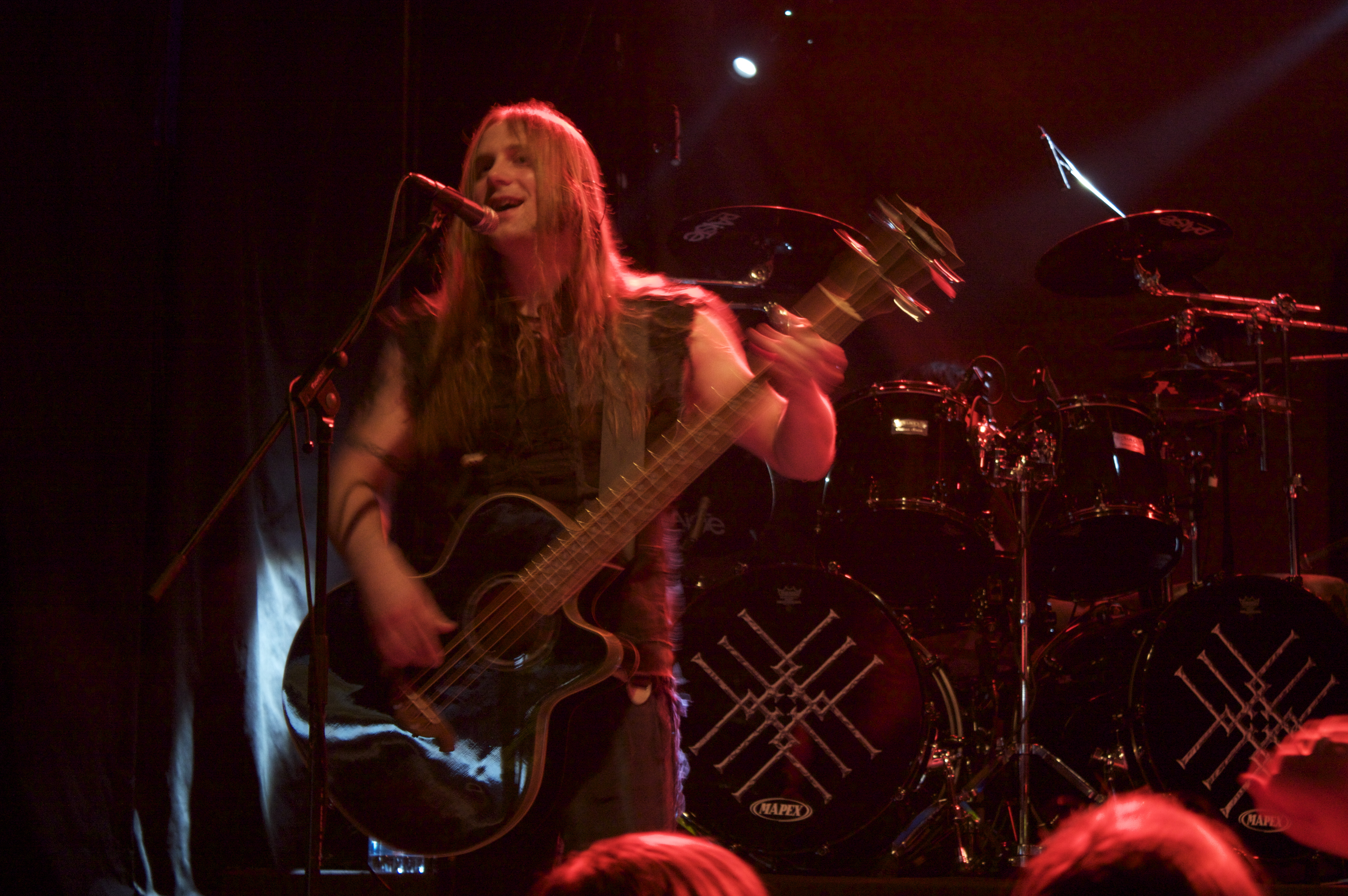 Raivo KuriRaivo Piirsalu of Metsatöll presenting the new album Äio in Rock Cafe, Tallinn, Estonia.